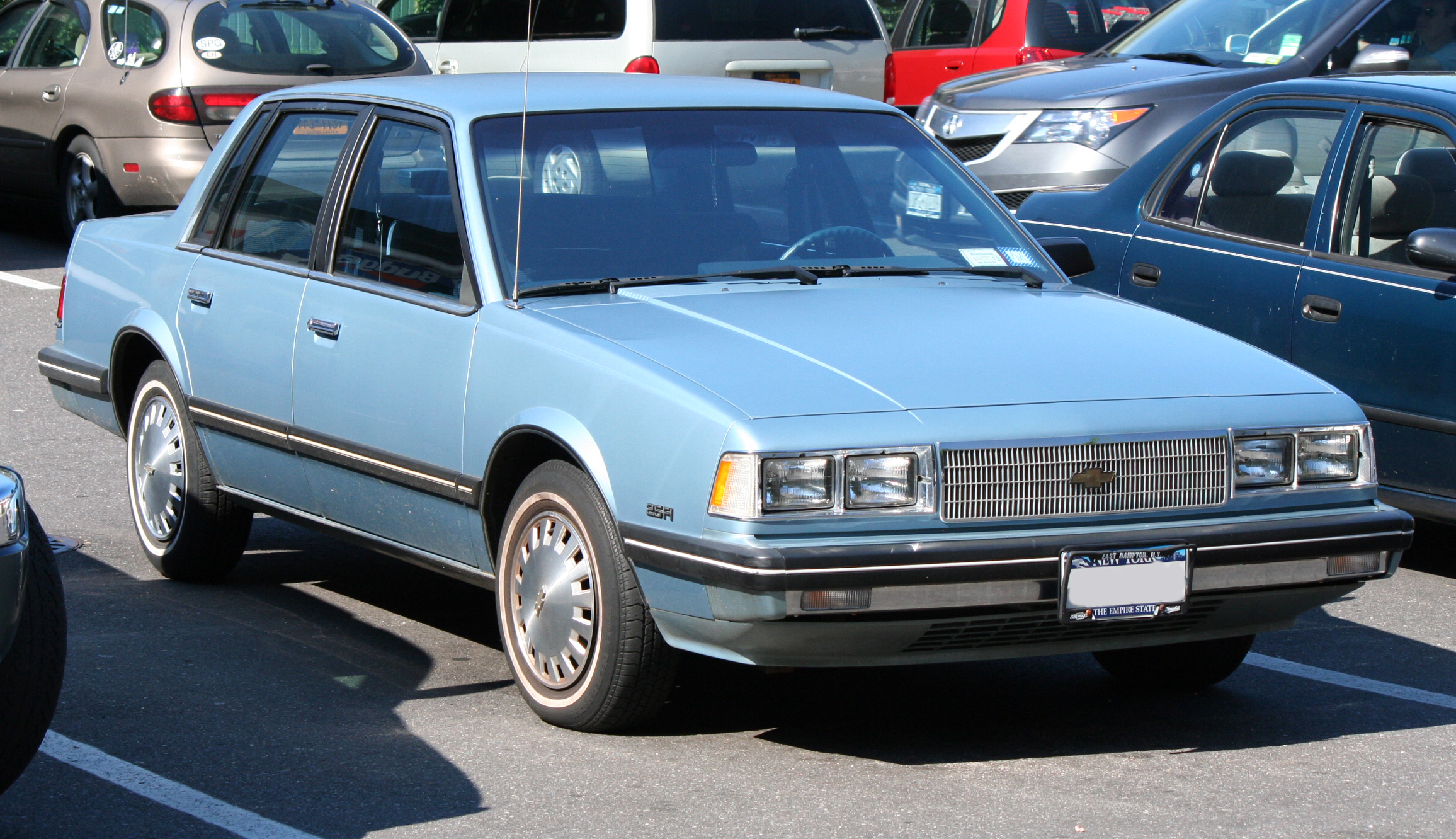 1986 Chevrolet Celebrity sedan with the 2.5FI four-cylinder engine